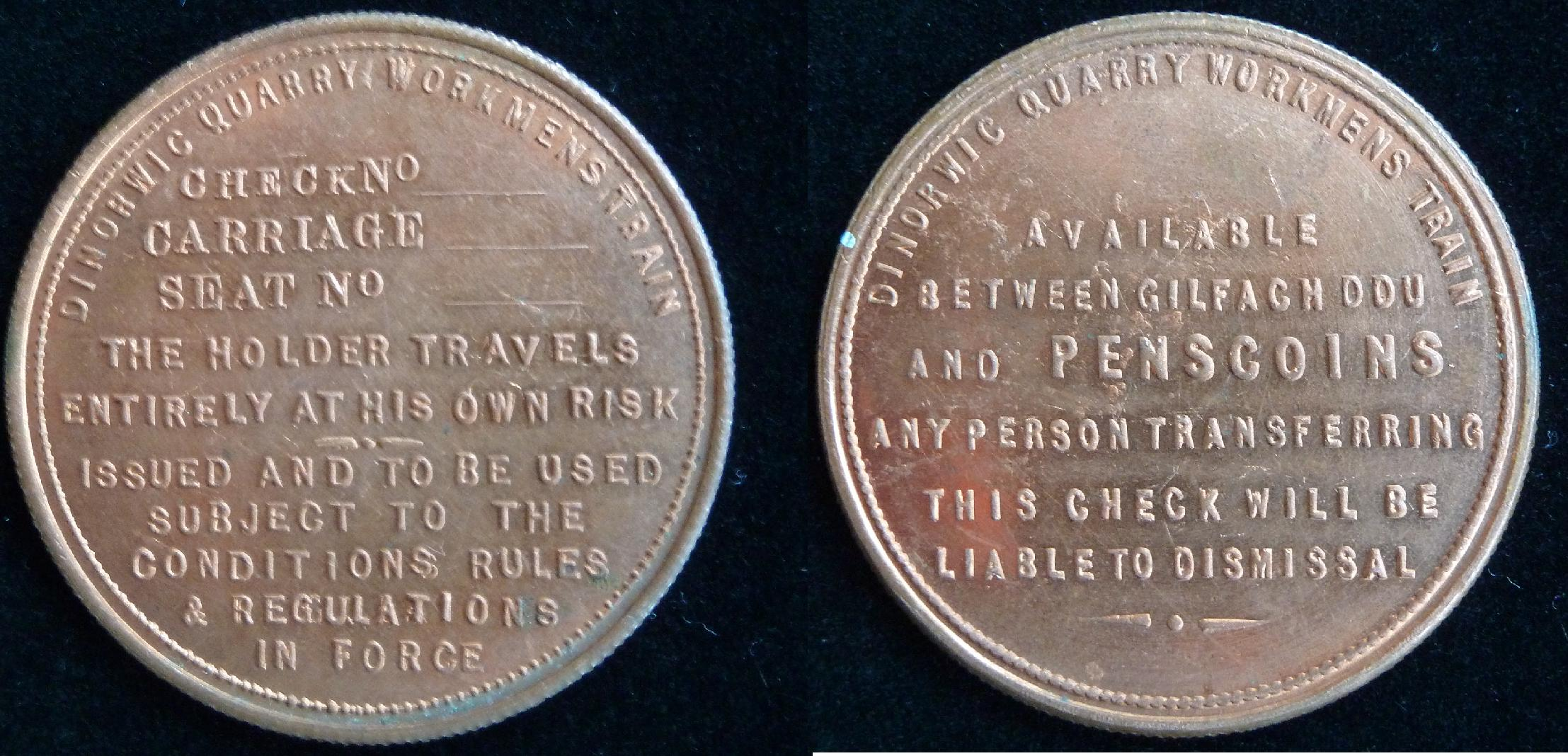 Padarn Railway workman's token